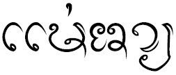 Lanna-Name of District in the North of Thailand